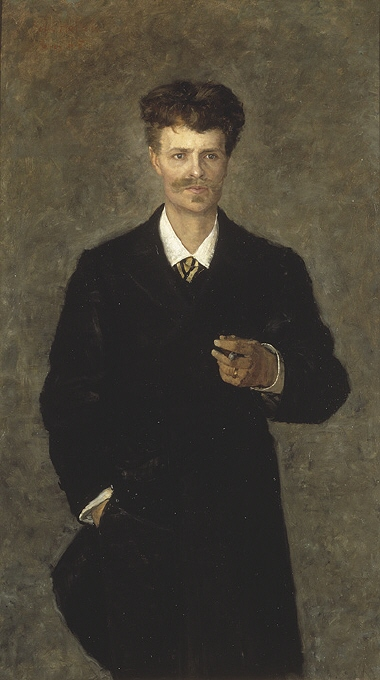 Portrait of August Strindberg painted by Sofie Holten